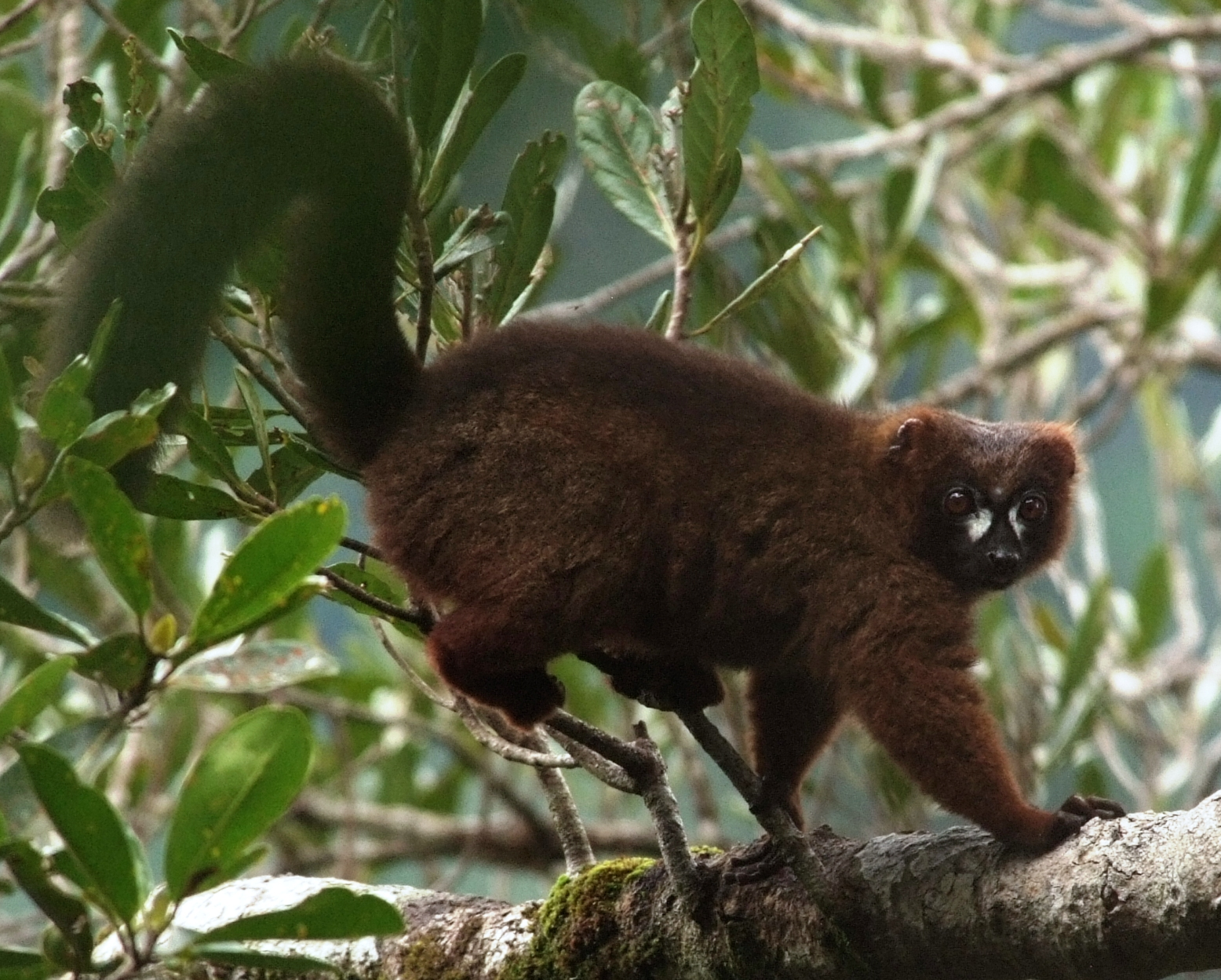 Red-bellied Lemur (Eulemur rubriventer) scent-marks some branches